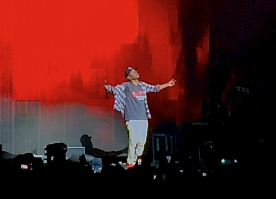 Kendrick Lamar performing 2Pac's Hail Mary.